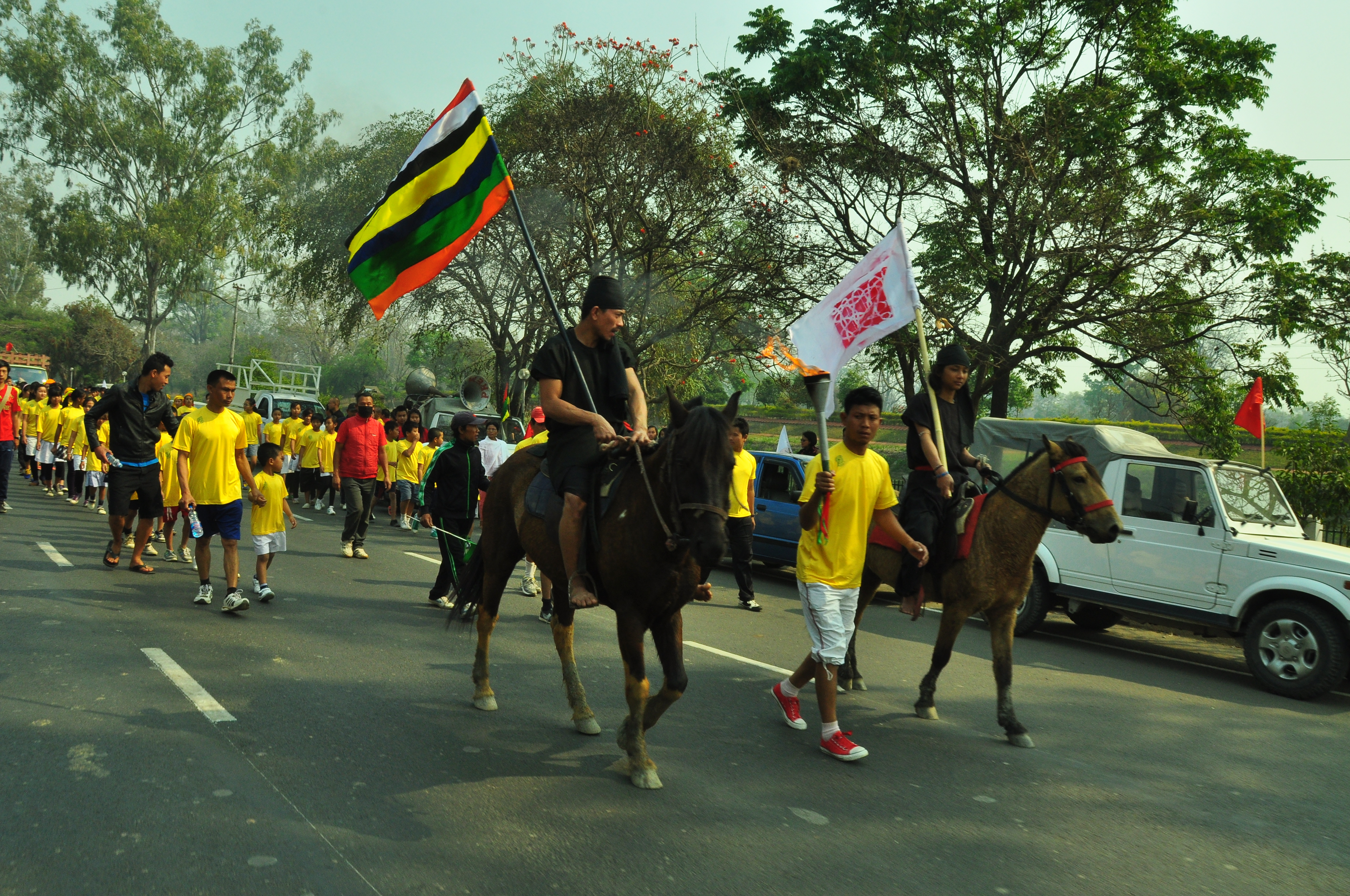 Horse Riders leading the way while a Manipuri held the torch to inaugurate the sports festival on the first day of Yaosang.